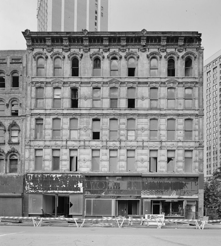 16-30 Monroe Avenue — Detroit, Michigan. Historic American Buildings Survey—HABS image (1989).